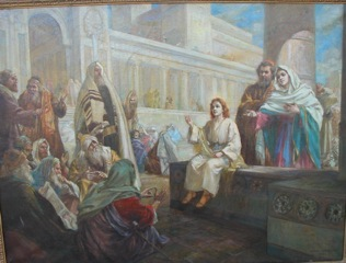 The painting, "Christ in the Temple," was painted by Ariel Agemian in 1958. It was donated to Anna Maria College in 2011. Reproductions in the form of cards will be available on his website, .